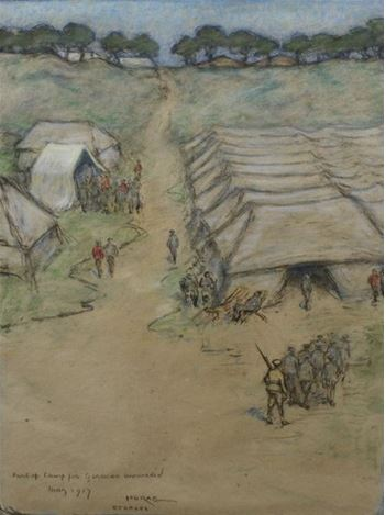 Camp for the German Wounded